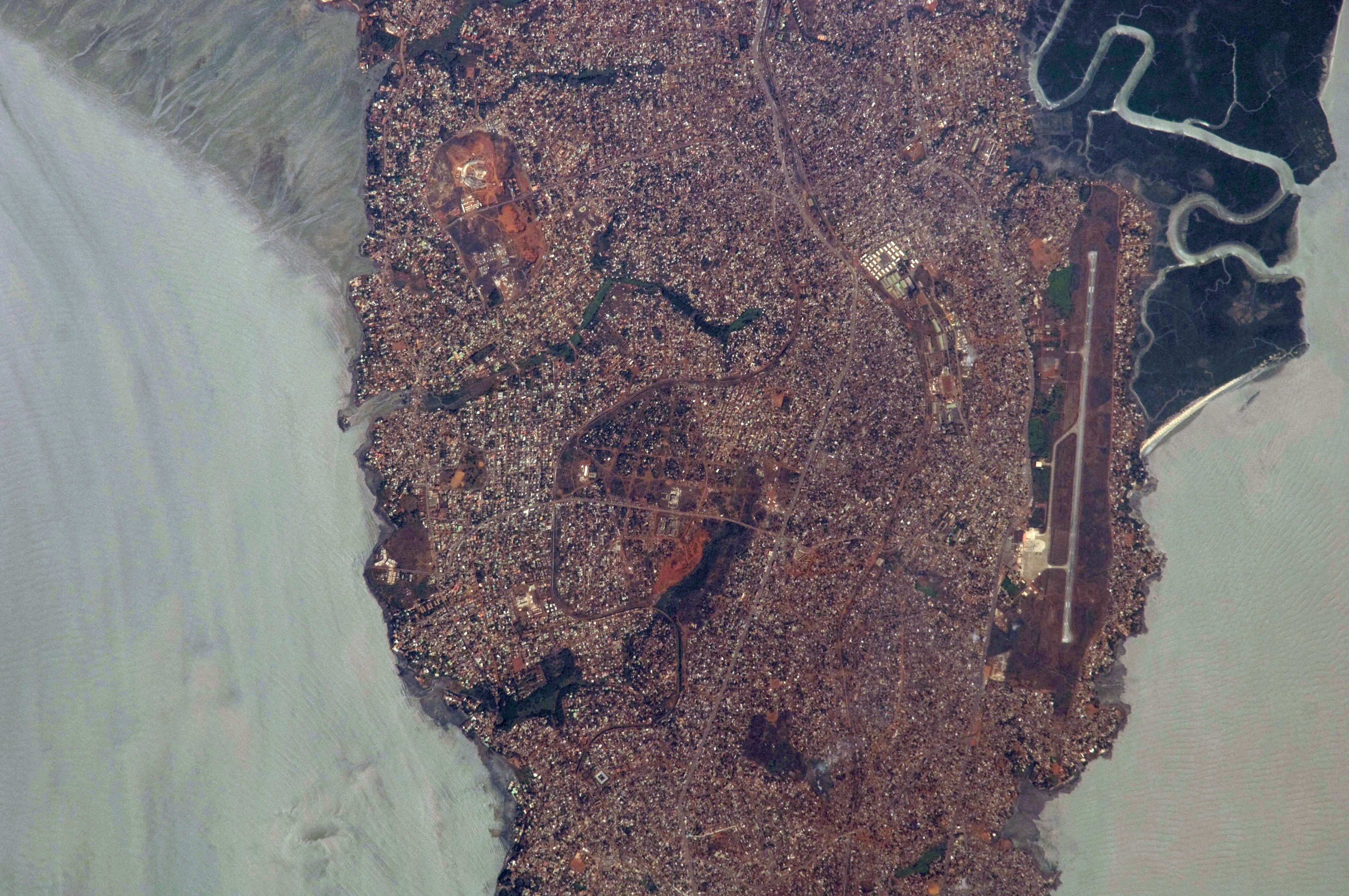 Guinean region of Conakry: Conakry, Bay of Sangarea, Conakry International Airport, Wetlands, Tidal Flats.